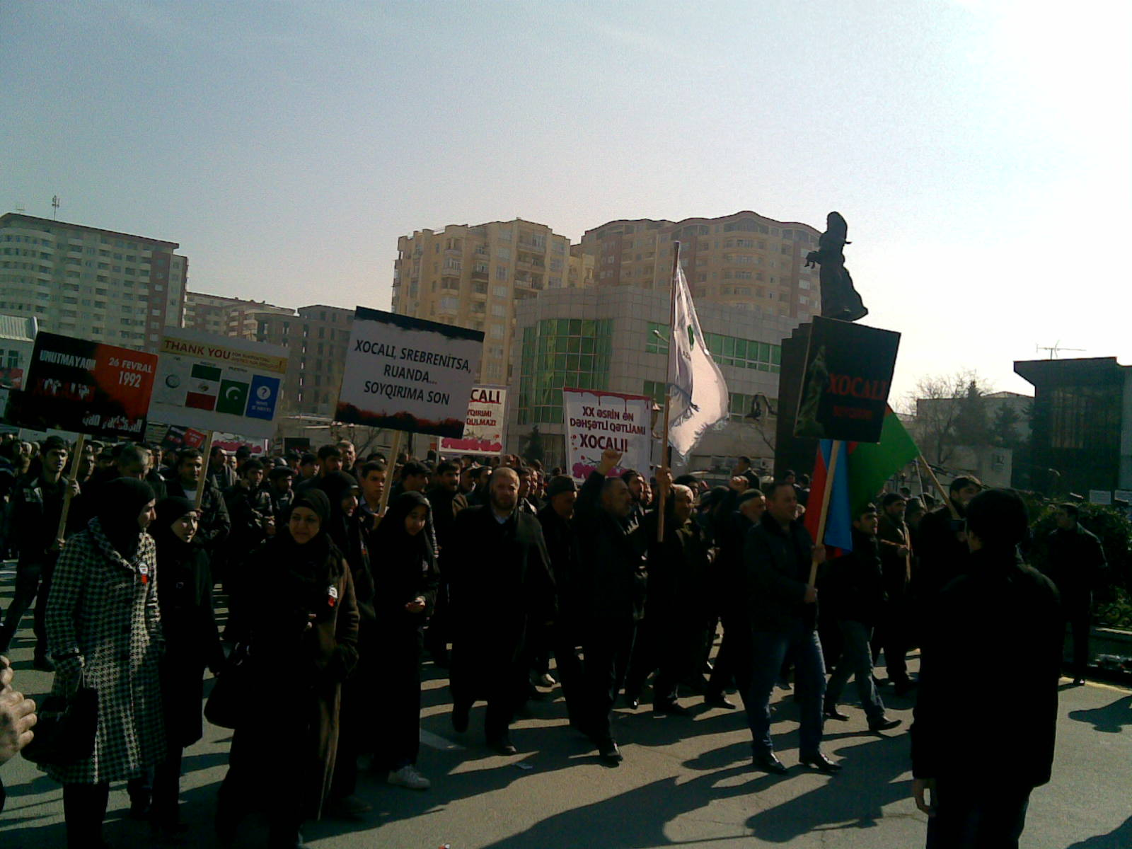 Khojaly 20Azərbaycanca: Azərbaycan İslam Partiyasının üzvləri Xocalı soyqırımının 20-ci ildönümü ilə əlaqədar ümumxalq yürüşündə